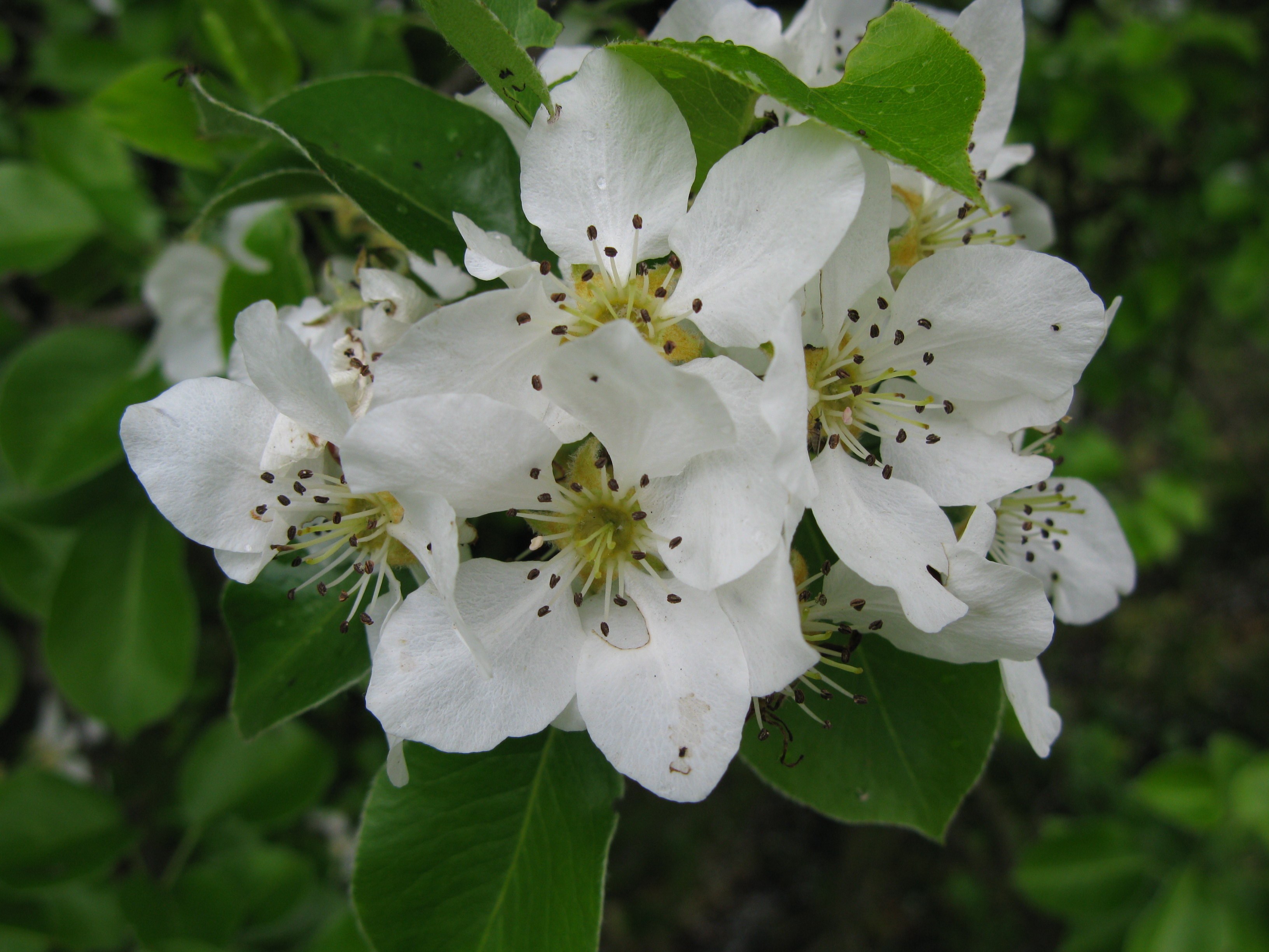 Flower of Pýrus